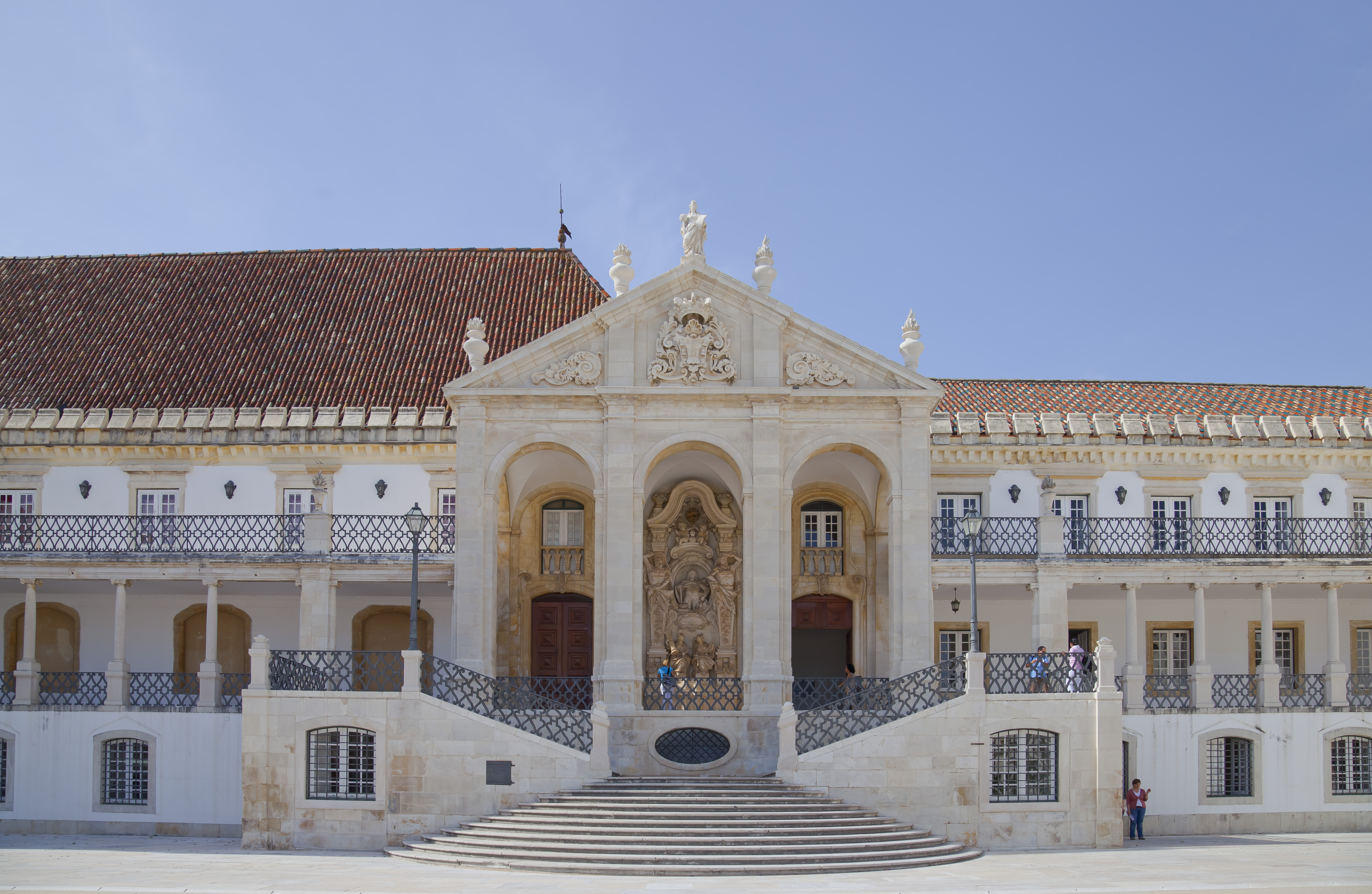 Square of the University of Coimbra, Portugal